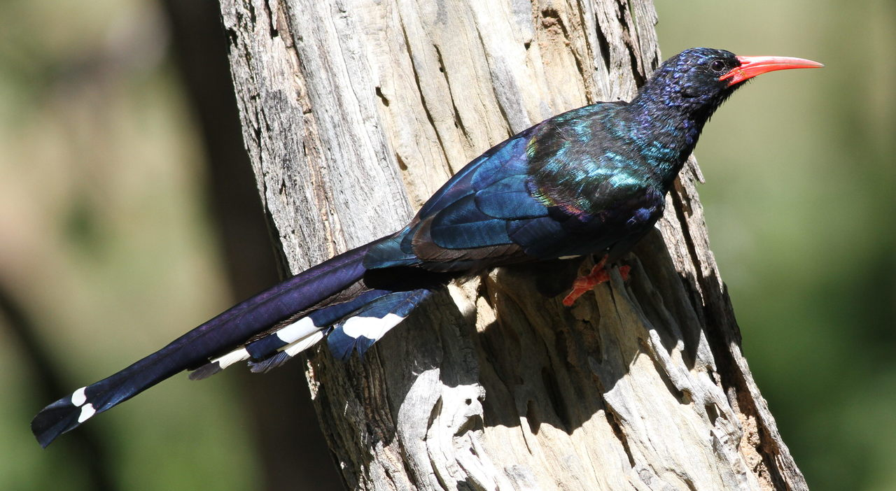 Green Wood Hoopoe, Phoeniculus purpureus, at Marakele National Park, Limpopo, South Africa